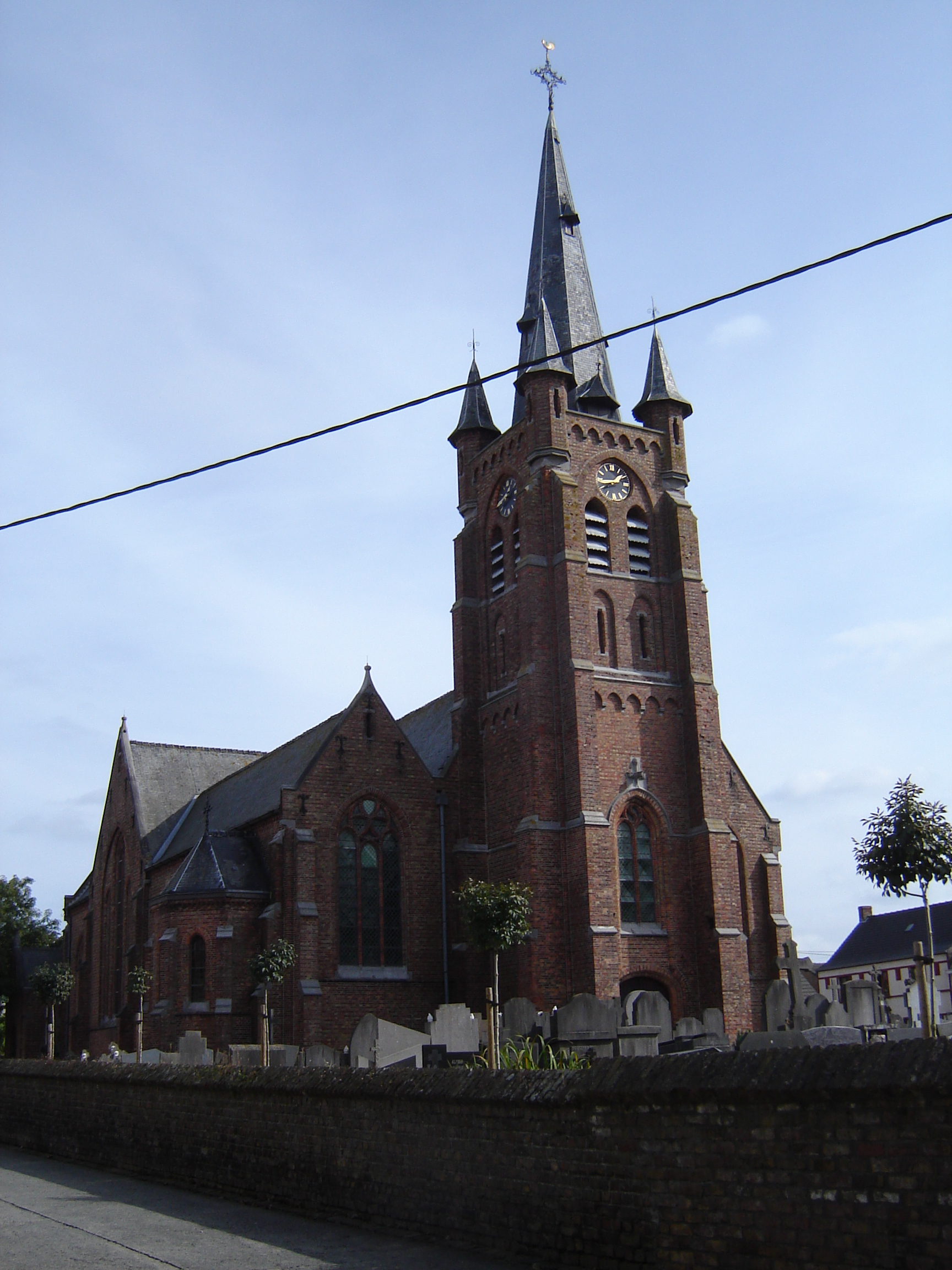 Church of Saint Cornelius in Snaaskerke. Snaaskerke, Gistel, West Flanders, Belgium